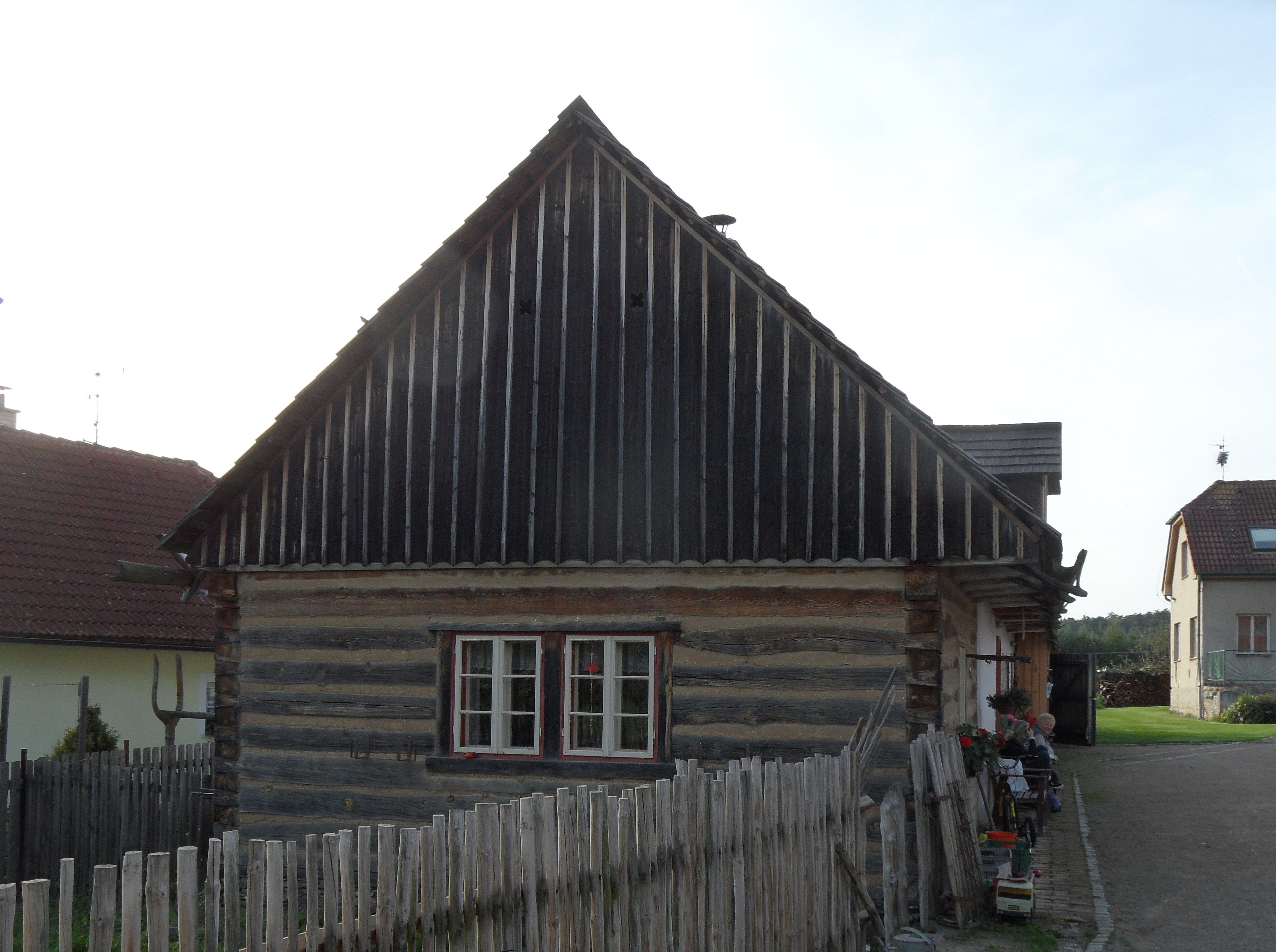 Rasochy (Uhlířská Lhota) 1. Country House No 13, Cultural Monument, Kolín District, the Czech Republic.